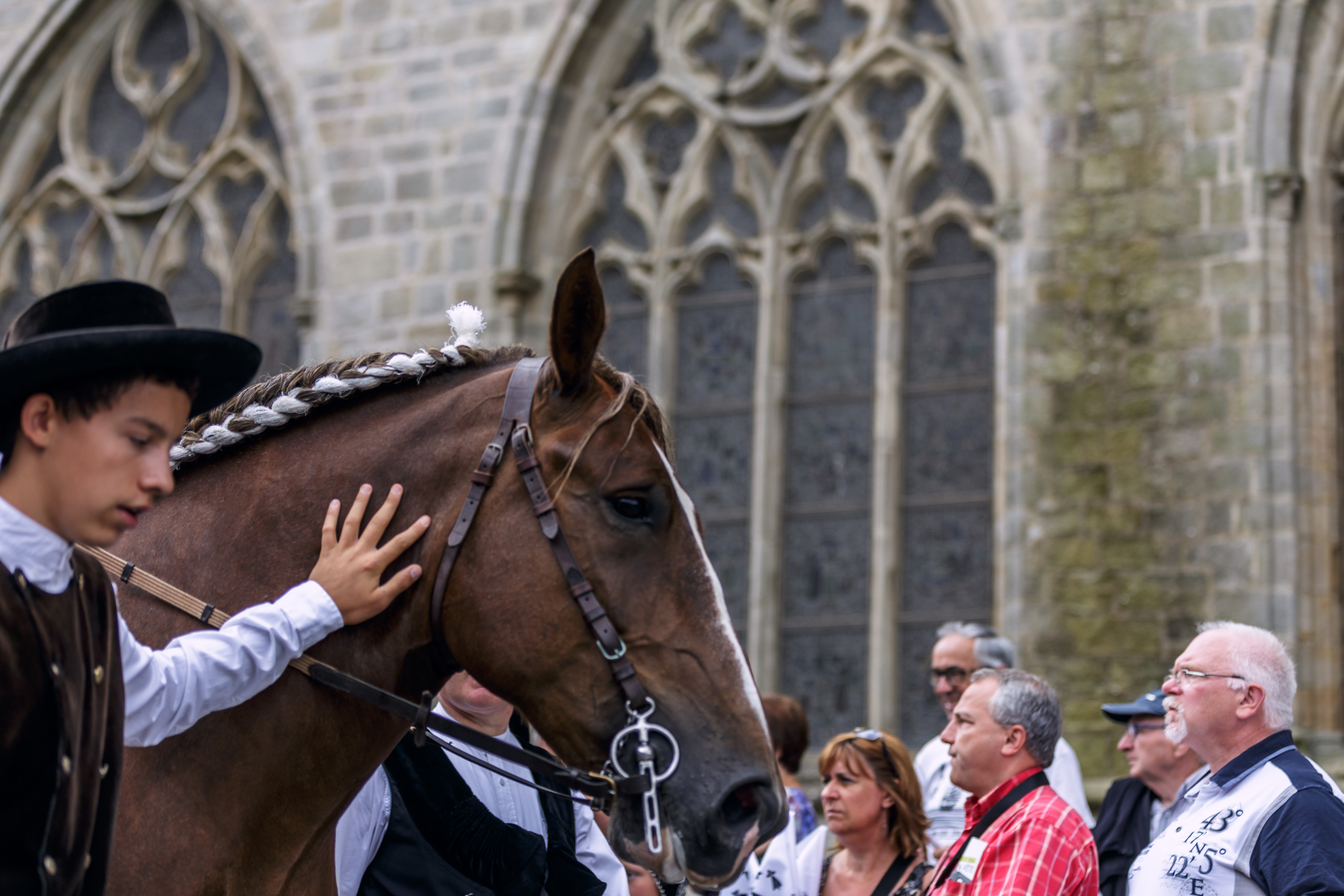 Parade of Breton folk groups during the 2016 Cornouaille Festival in the streets of Quimper.